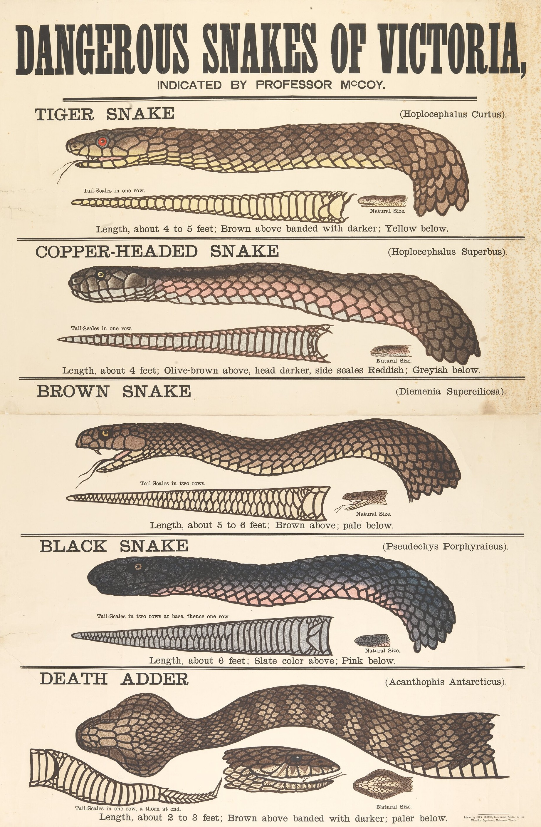 Four legs good, no legs bad? Dogs, snakes, doctors and police in colonial Australia